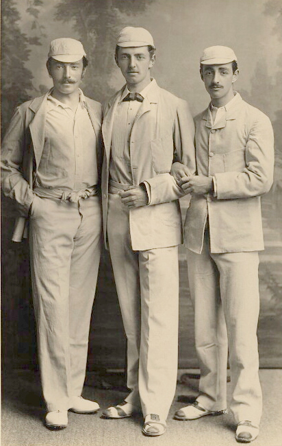 Studd brothers - famous gentleman cricketers from the 19th Century. Unknown photographer From left to right: Sir John Edward Kynaston Studd Bt Charles Thomas Studd George Brown Studd